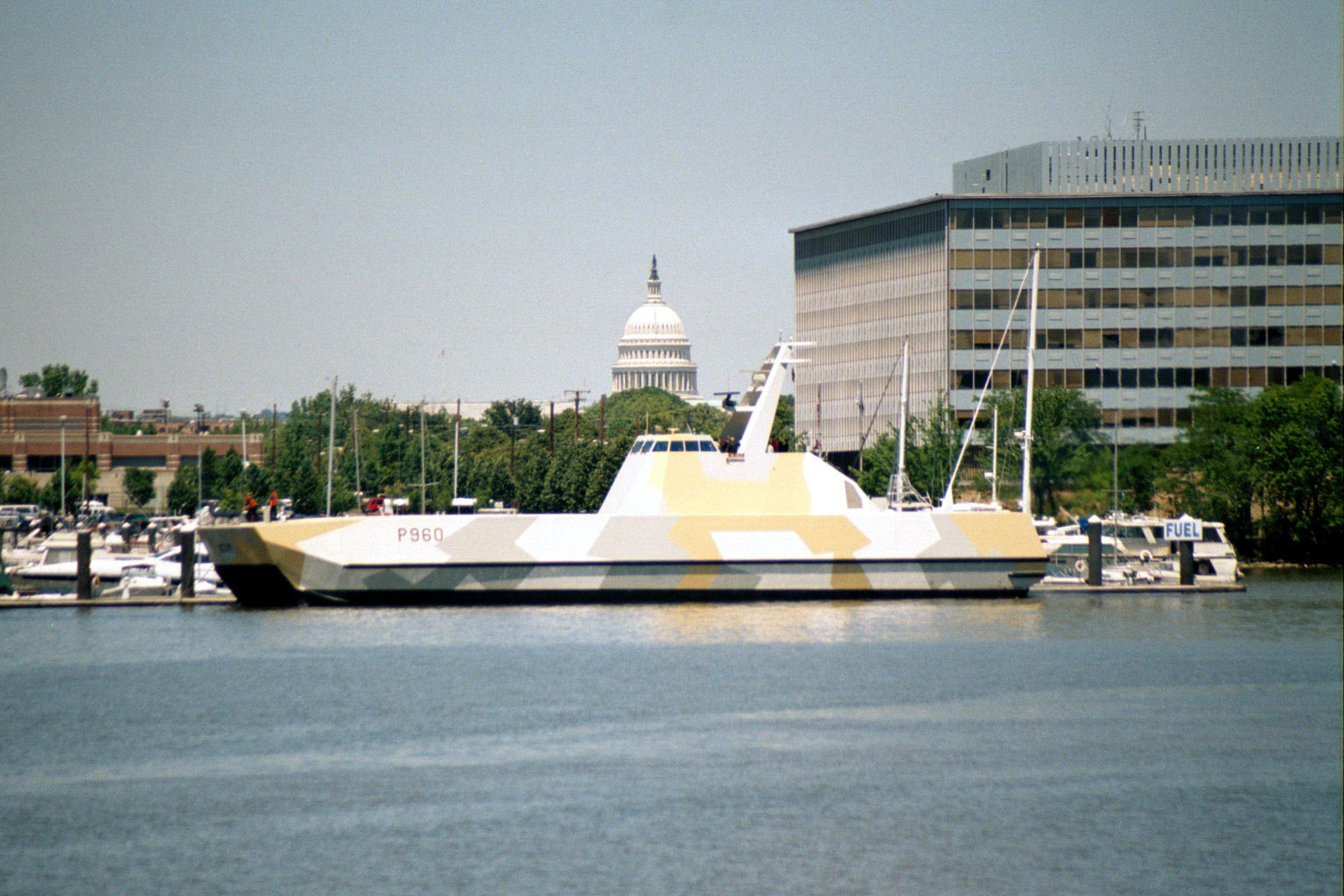 KNM Skjold (P690), a Royal Norwegian Navy Skjold-class fast patrol craft, painted in a splinter camouflage pattern, tied up at the Fort McNair Yacht Basin on the Anacostia River, Washington D.C. (USA), 22 May 2002. In the background to the left is the National War College and the US Capitol Dome (center) is visible.